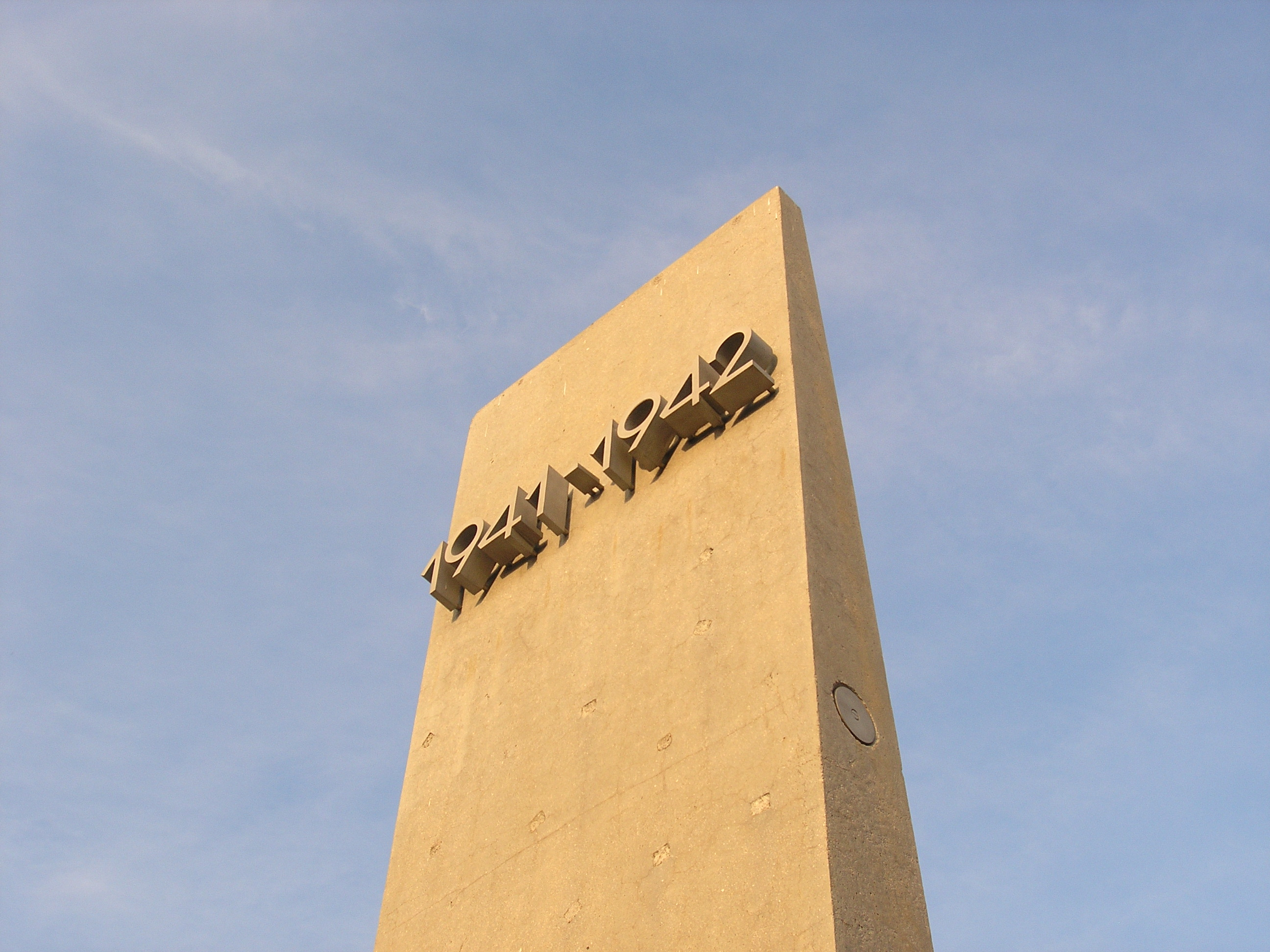 Memorial to 40 years of Victory day, Togliatti, Russia, years on stelas